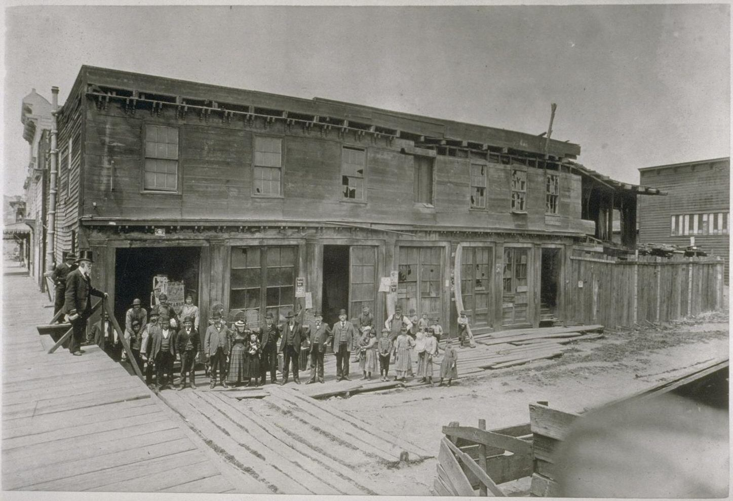 Abe Warner's Cobweb Palace. Francisco Street. Abe Warner in plug hat on the left. Original source of photo